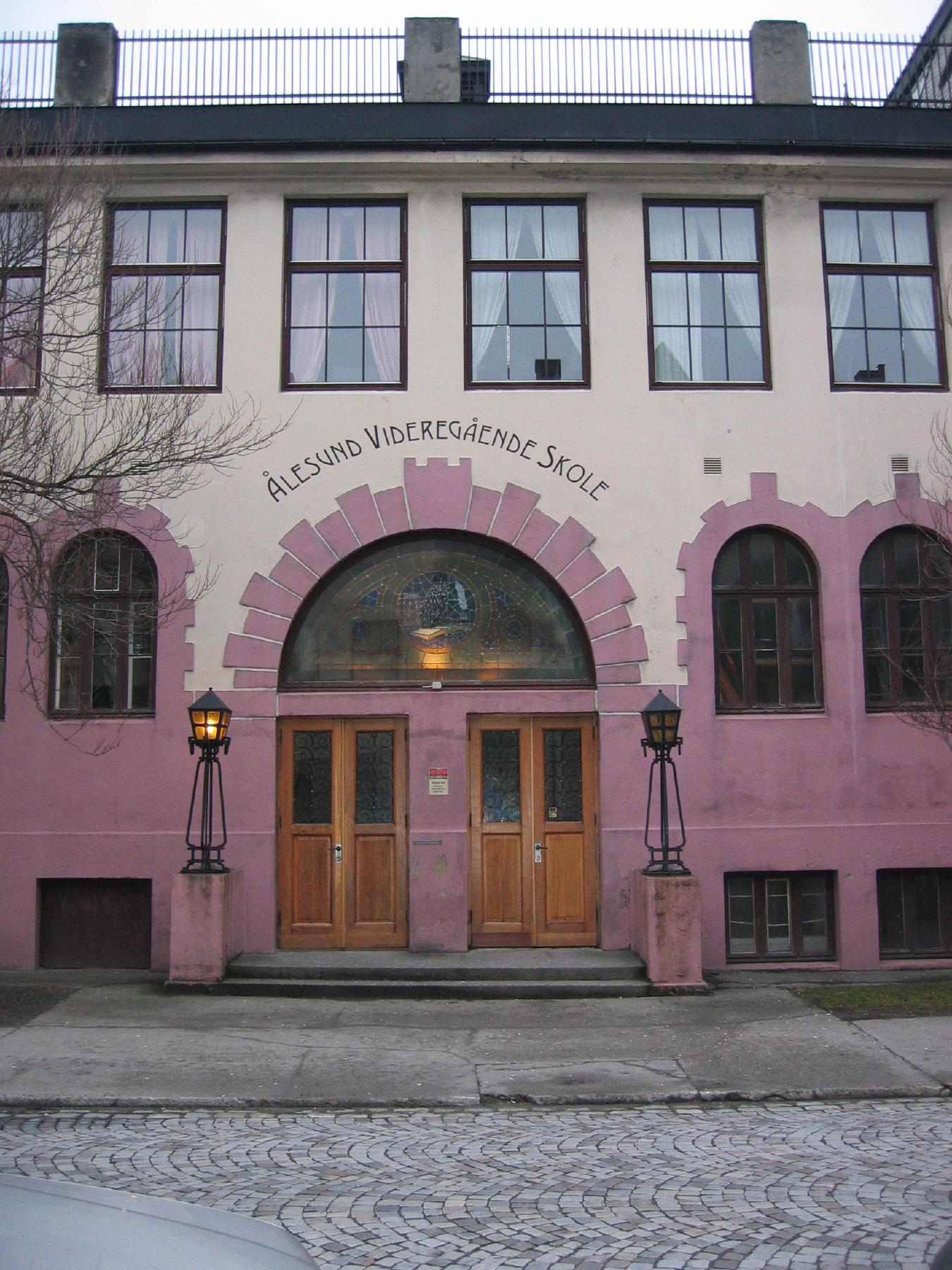 Ålesund upper secondary school.